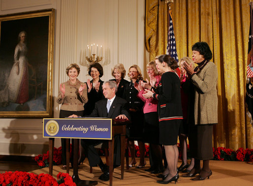 President George W. Bush is applauded by Mrs. Laura Bush, Cabinet members and members of Congress, at the proclamation signing for Women's History Month Monday, March 10, 2008 in the East Room of the White House in honor of Women's History Month and International Women's Day. From left are, U.S. Secretary of Labor Elaine Chao, U.S. Secretary of Transportation Mary Peters; New York Rep. Carolyn Mahoney, Rep. Marsha Blackburn of Tennessee, Rep. Judy Biggert of Illinois, Rep. Mary Fallin of Oklahoma, Rep. Shelley Moore Capito of West Virginia, Rep. Dianne Watson of California and Rep. Jean Schmidt of Ohio. (White House photo: Joyce N. Boghosian)